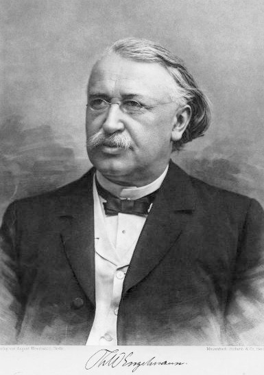 Prof. Th. W. Engelmann